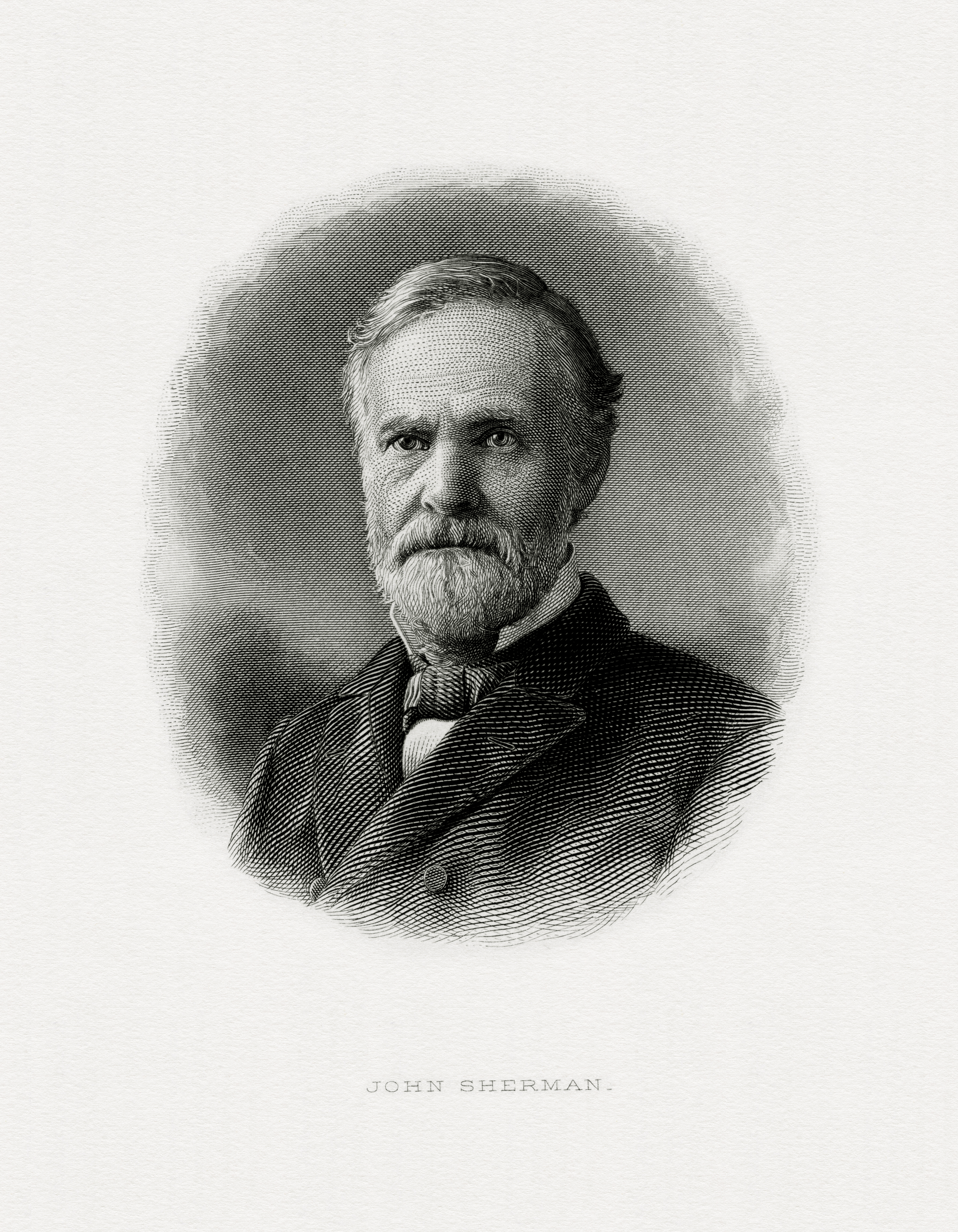 Engraved BEP portrait of U.S. Secretary of the Treasury John Sherman